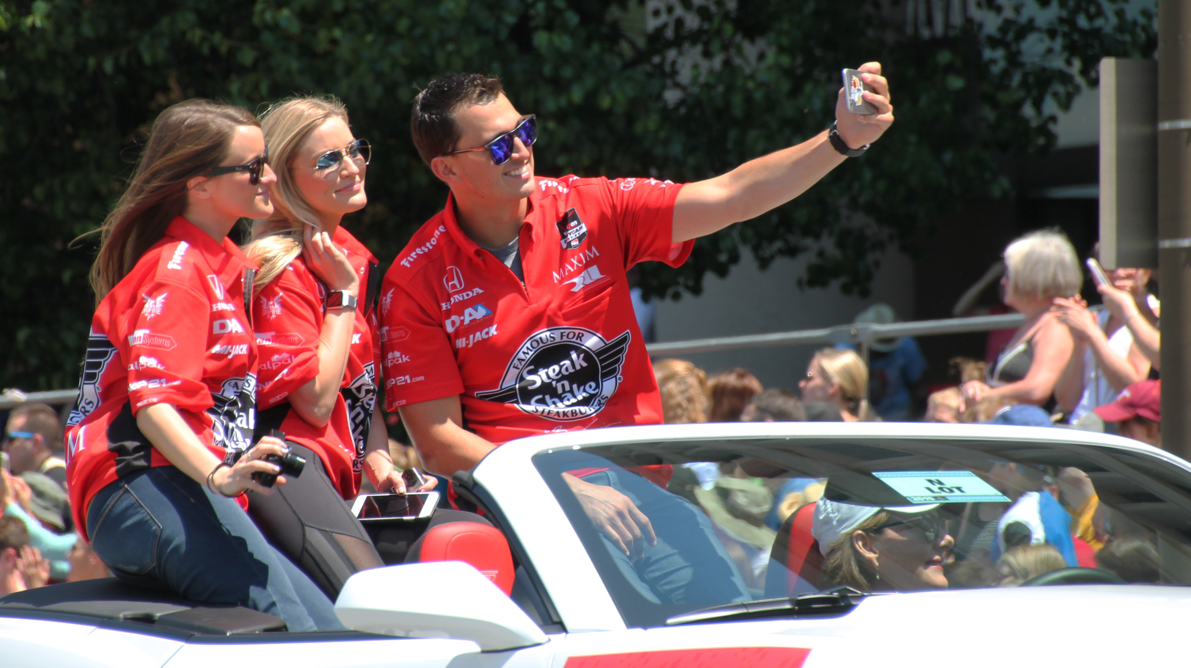 Graham Rahal takes a selfie in the 2015 500 Festival Parade in Indianapolis, Indiana